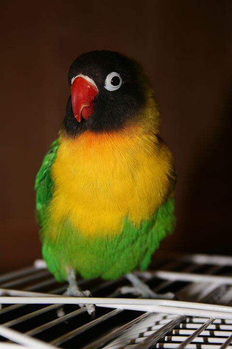 A Black Masked Lovebird named Zoro. Masked Lovebird (Agapornis personatus) pet on cage.png